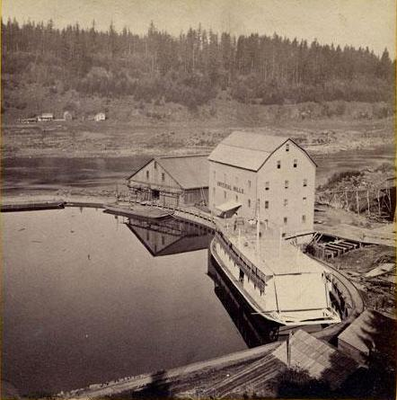 Oregon City boat basin above Willamette Falls, with flour mill and sternwheel steamboat (probably under construction or repair)in the basin. Probably a cropped version of another larger photographic plate.